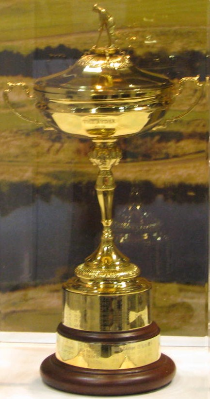 Ryder Cup displayed at the 2008 PGA Show